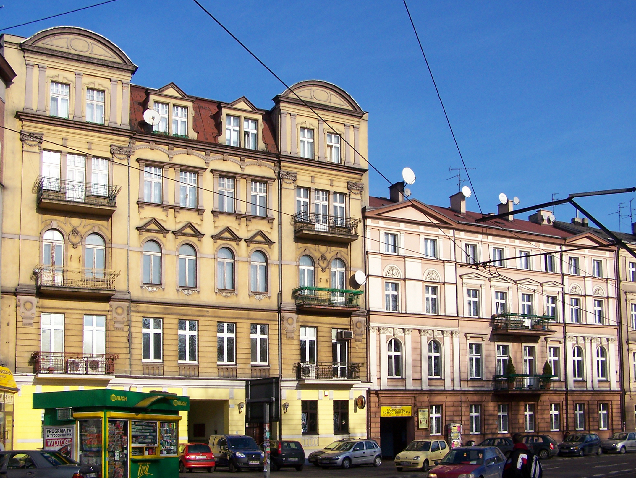 Freedom Square in Katowice (Poland).